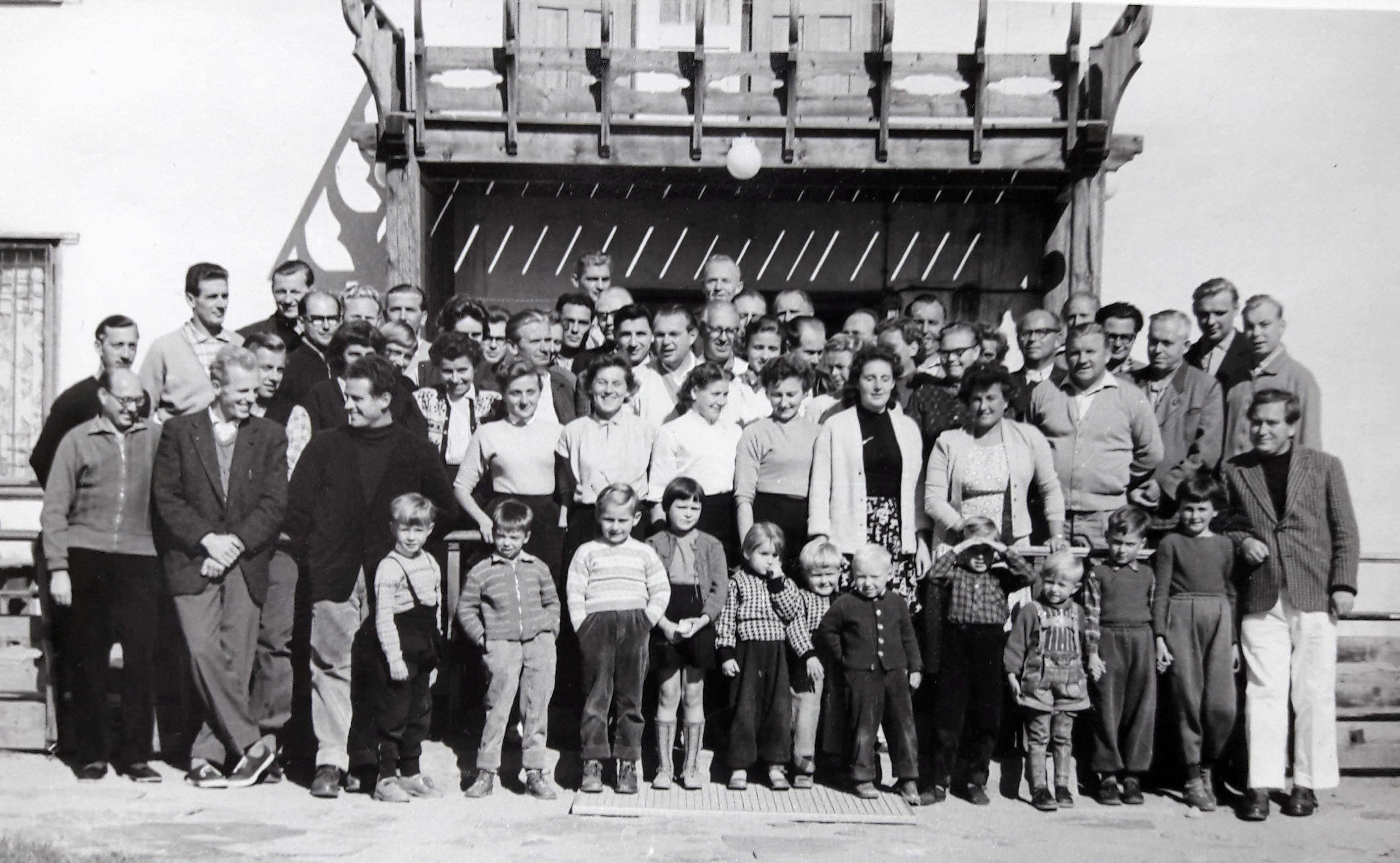 East German development aid task force to rebuild Korean city of Hamhung.